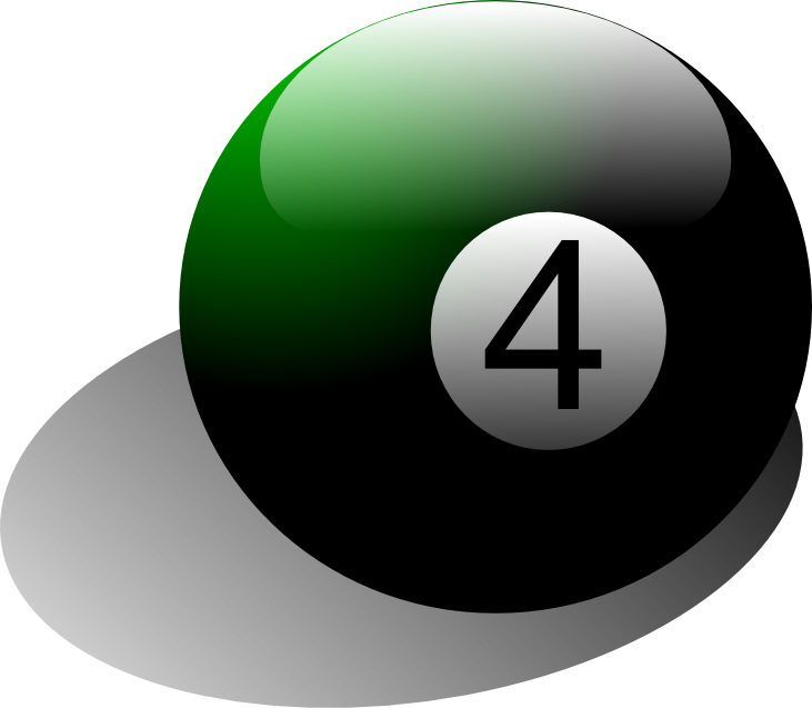 A pool ball animation